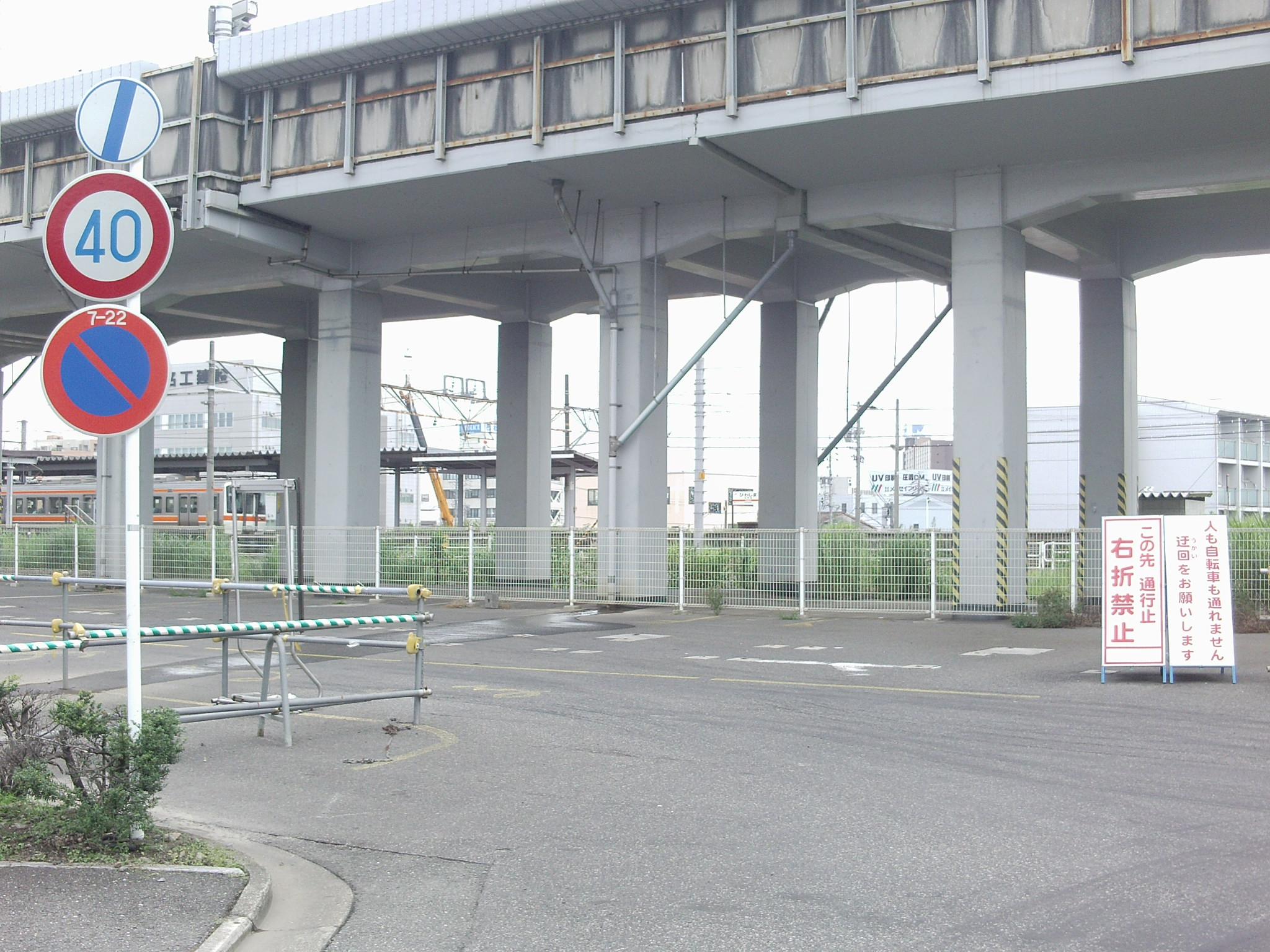 Aichi prefectural road No.141 in Nishibiwajimacho-Asahi 2-chome, Kiyosu, Aichi. Starting point, Biwajima Station.